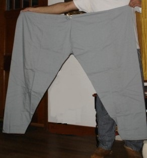 Image taken with Sony Cyber-shot 4.1 Megapixel digital camera by uploader Fowler&fowler«Talk» 01:14, 31 December 2006 (UTC)